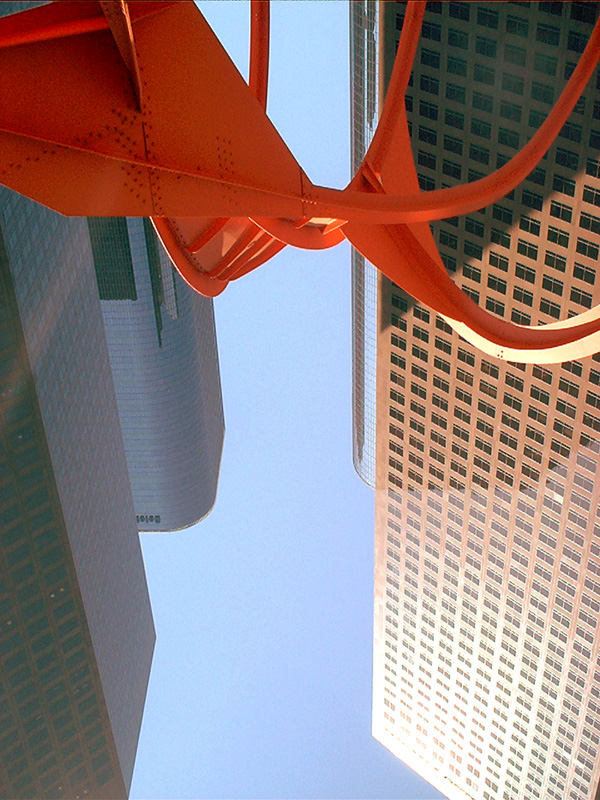 Downtown LA's office skyscrapers. Including the Wells Fargo Center and California Plaza Towers.